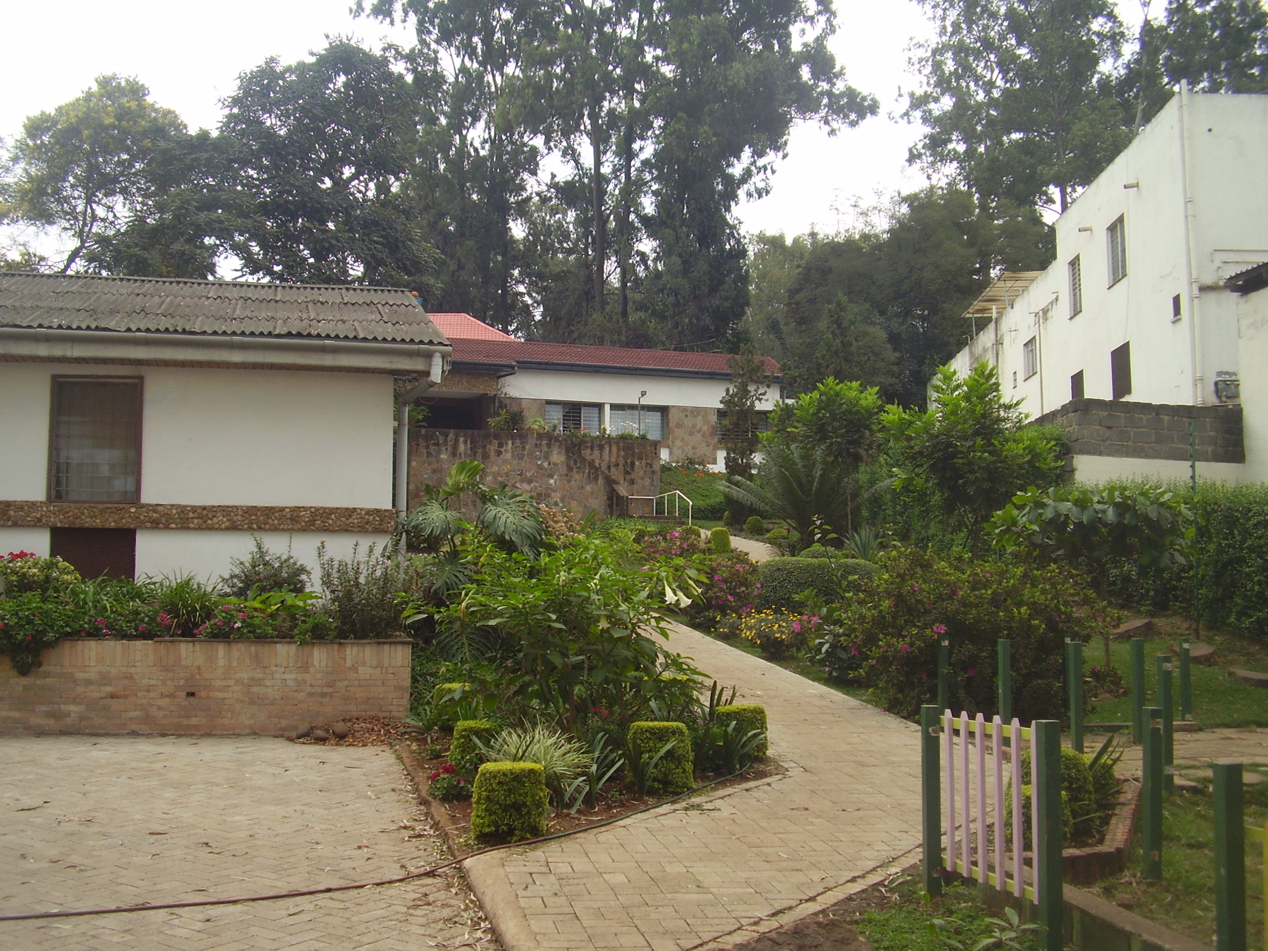 This is a photograph of the National Bahá'í Centre (Haziratu'l-Quds) in Nairobi, Kenya.